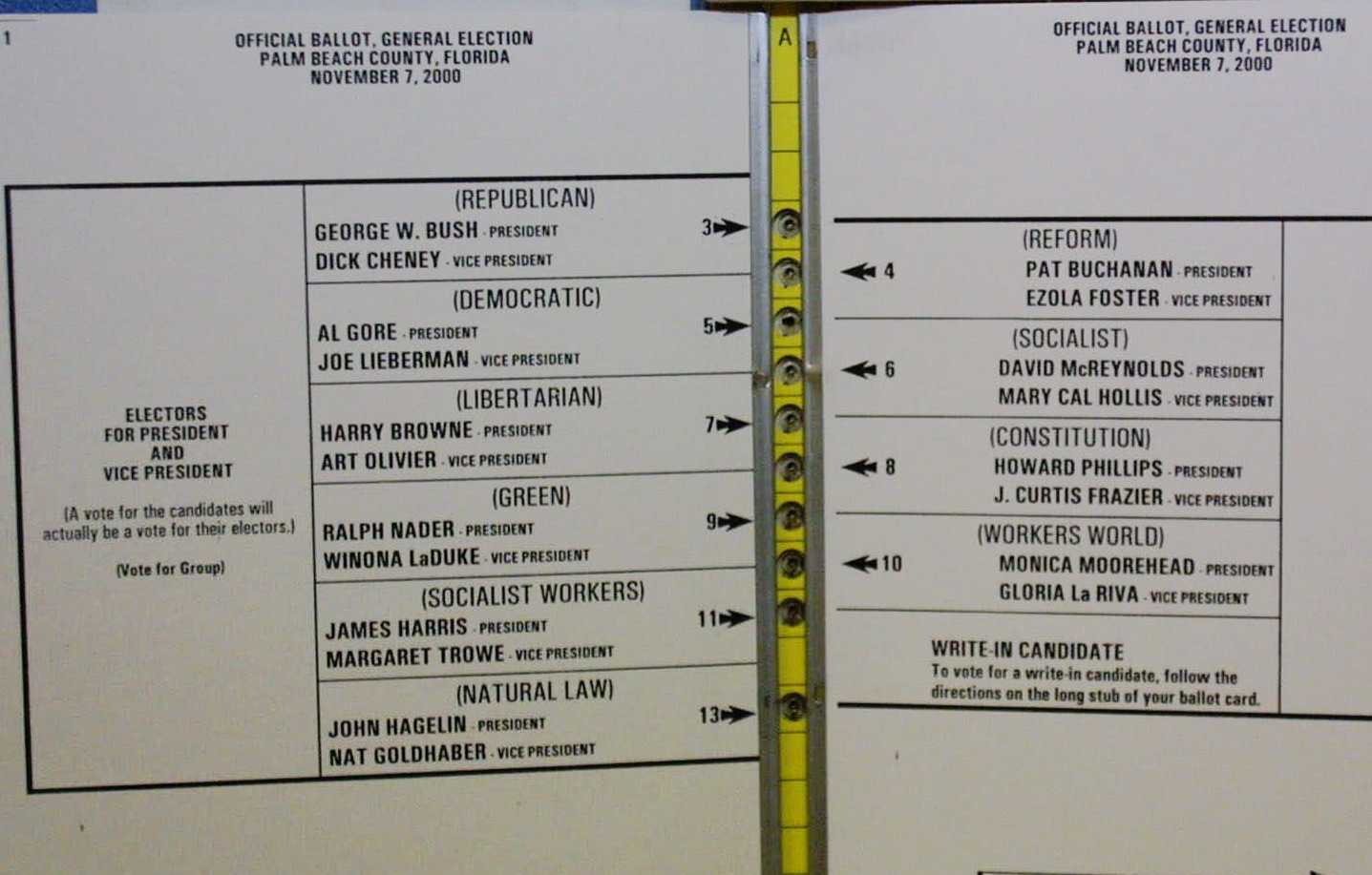 Official ballot for the 2000 United States Presidential election, November 7, 2000, from Palm Beach County, Florida.